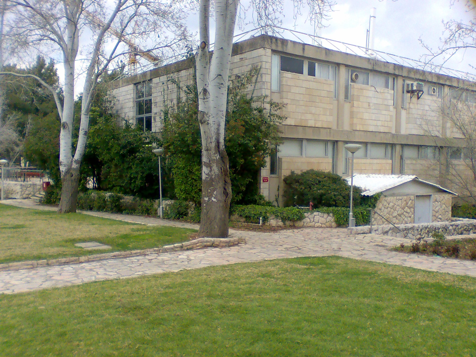 Rocach institute, Jerusalem